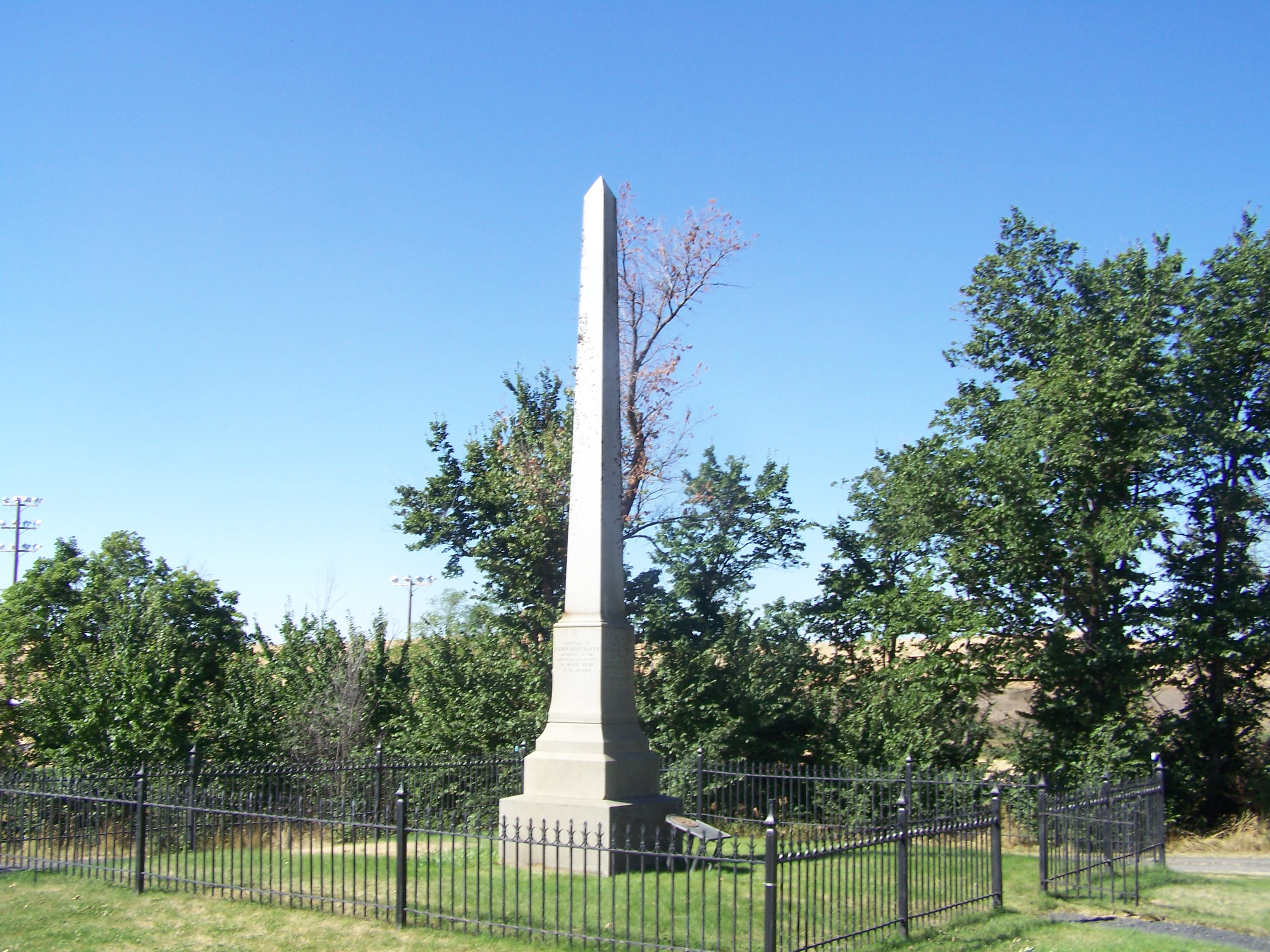 Picture of the Steptoe Battlefield Memorial in Rosalia, Wa.